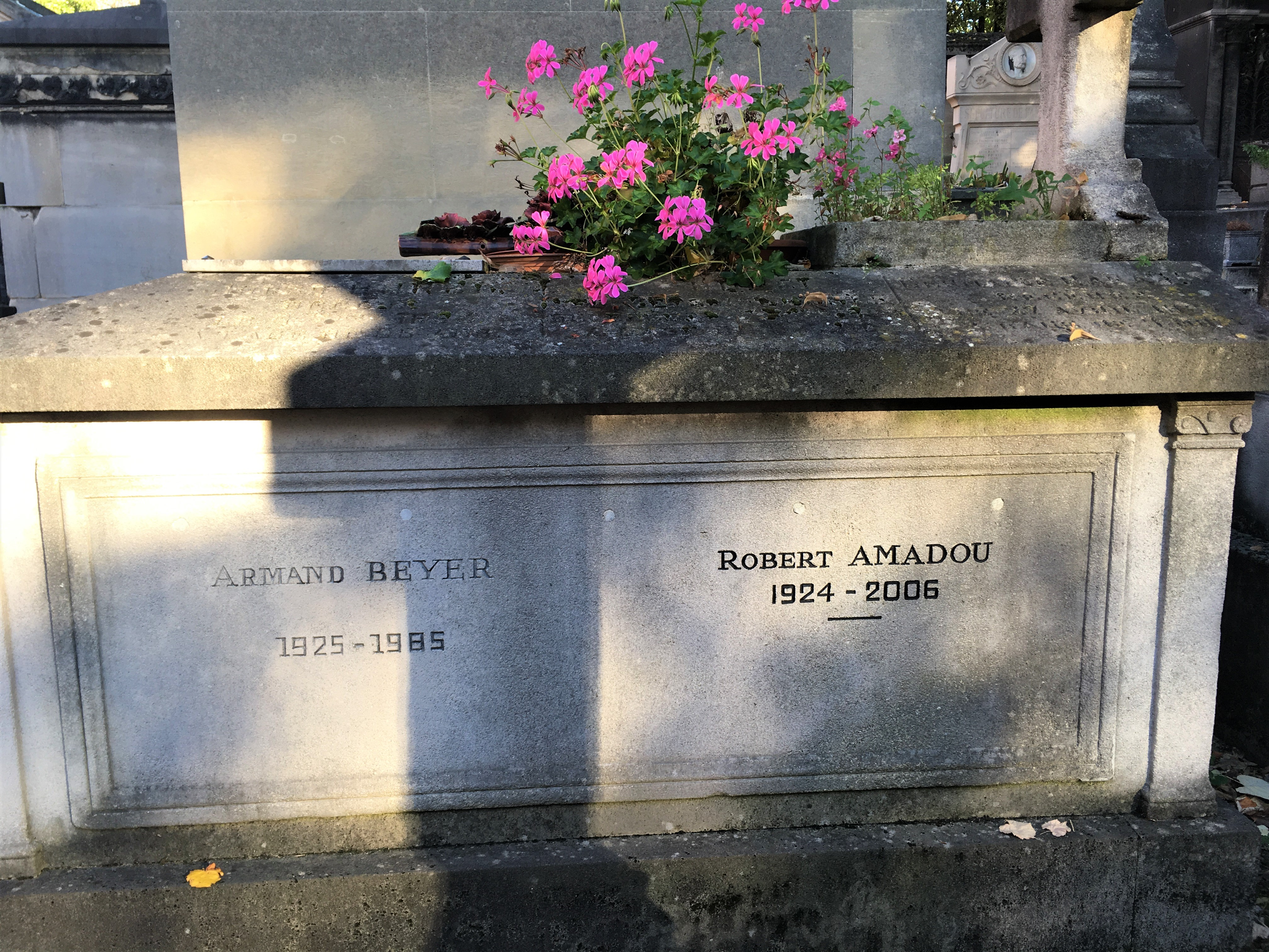 Tombstone Robert Amadou at the Père-Lachaise in Paris